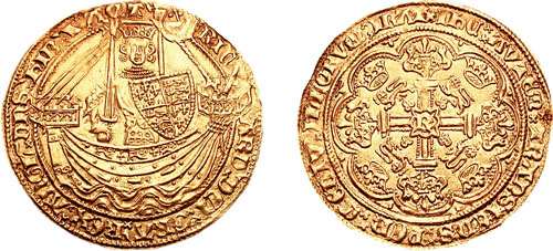 Plantagenet. Richard II of England. 1377-1399. AV Noble (7.68 gm, 1h). Second issue, Type 2b. London mint. Richard standing facing in ship, holding sword and shield; French title omitted, trefoil over sail Ornate cross with lis at ends, R in center, surrounded by crowns and lions; saltire cross mintmark. Cf. Schneider 150; cf. North 1304; cf. SCBC 1655. EF on a full flan. "Nobles of Richard II should have an initial mark of a cross pattee; however, there are very rare variants known (see, e.g., Schneider 126 and 139)."